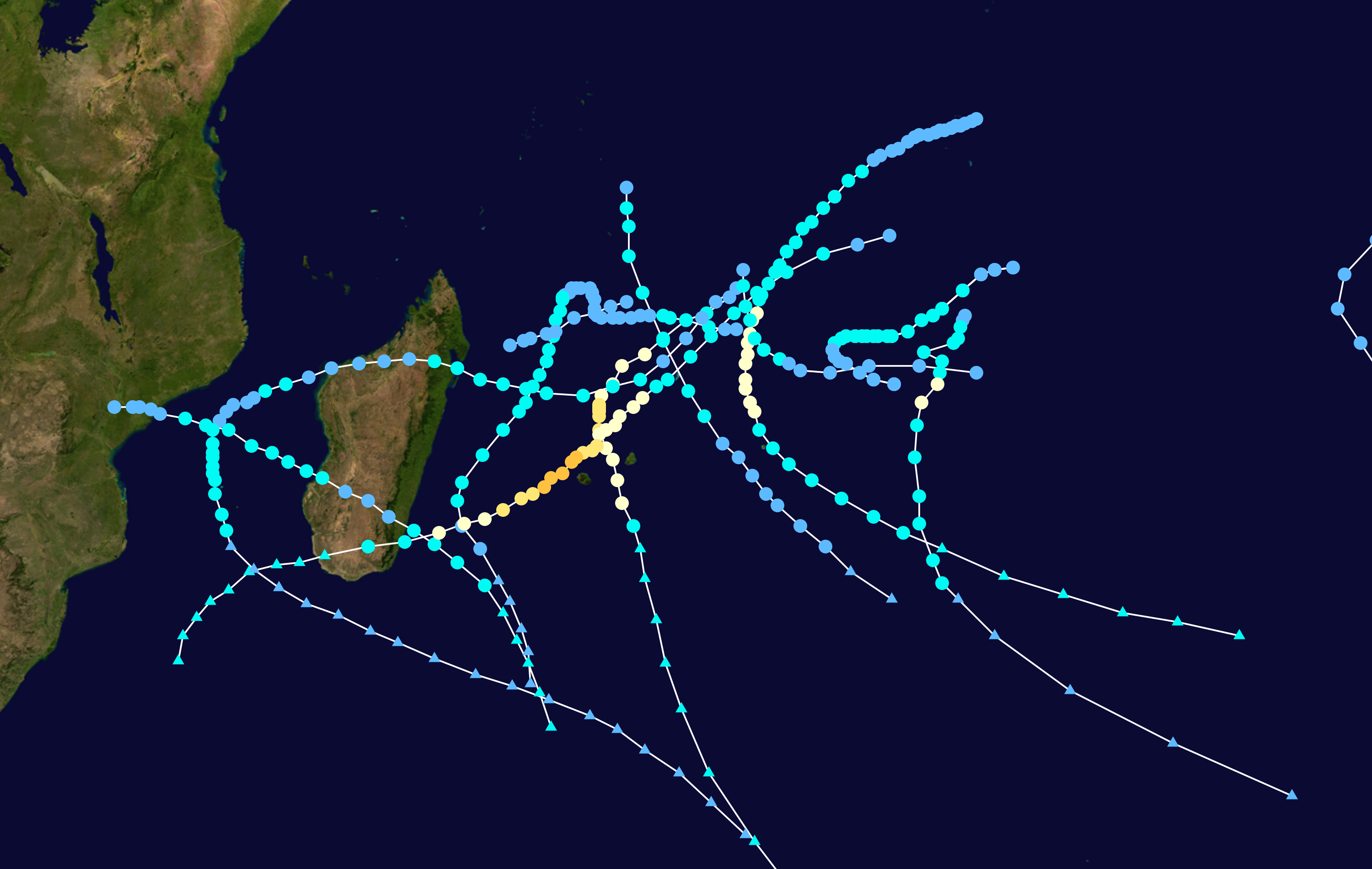 This map shows the tracks of all tropical cyclones in the 1963-64 South-West Indian Ocean cyclone season. The points show the location of each storm at 6-hour intervals. The colour represents the storm's maximum sustained wind speeds as classified in the Saffir-Simpson Hurricane Scale (see below), and the shape of the data points represent the type of the storm. Saffir–Simpson scale Tropical depression≤38 mph≤62 km/h Category 3111–129 mph178–208 km/h Tropical storm39–73 mph63–118 km/h Category 4130–156 mph209–251 km/h Category 174–95 mph119–153 km/h Category 5≥157 mph≥252 km/h Category 296–110 mph154–177 km/h Unknown Storm typeTropical cycloneSubtropical cycloneExtratropical cyclone / Remnant low / Tropical disturbance